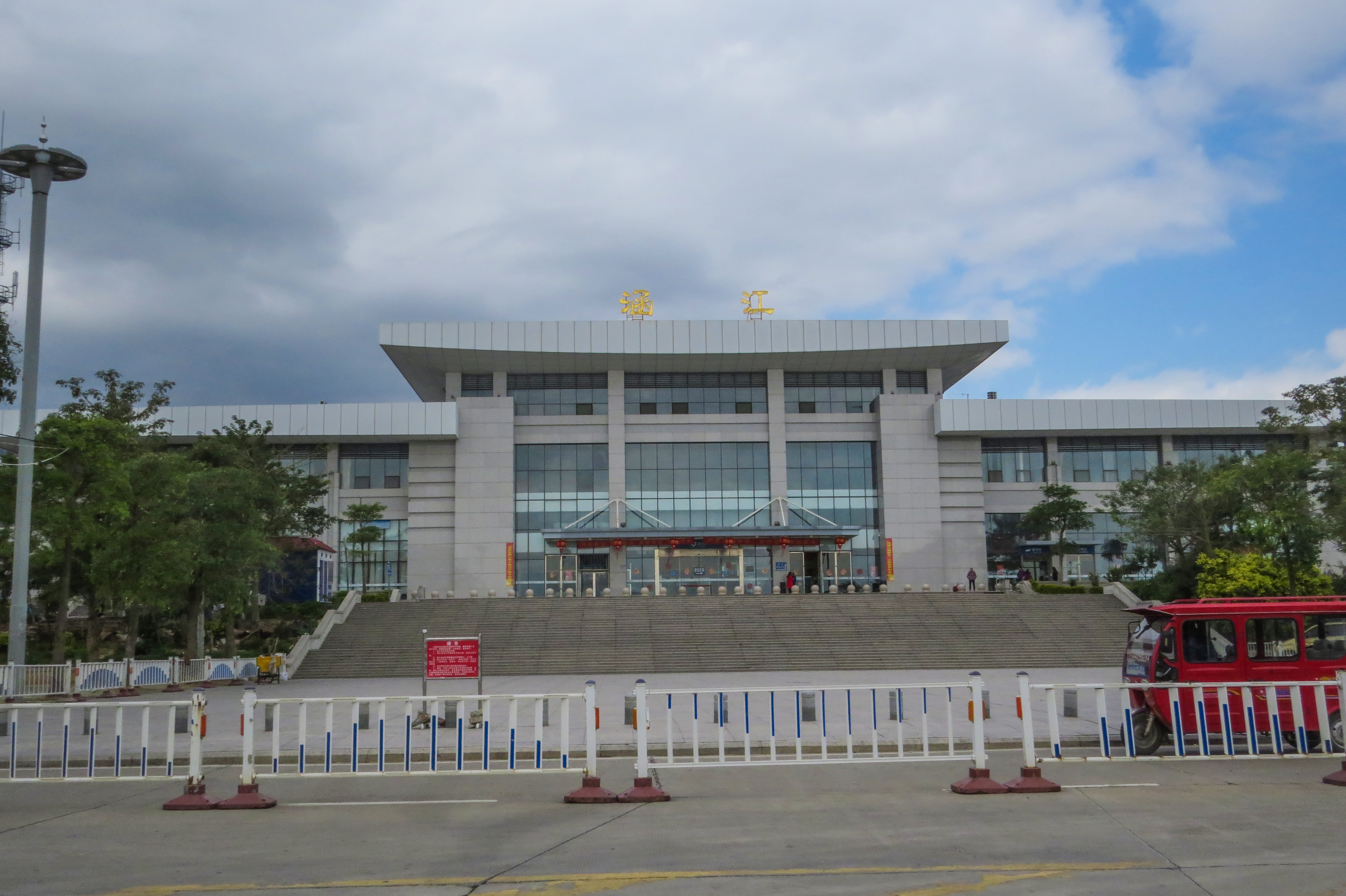 Right in Jiangkou. Rare golden font rather than red font.